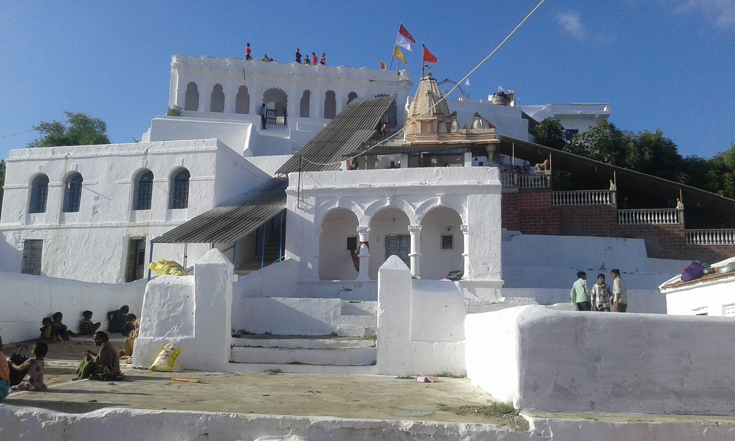 Jakh Bahotera are group of folk deities worshiped in Kutch region of Gujarat, India. Image of the shrine temple on hill is taken Kakadbhit (Mota Yaksh) near Nakhtrana, near Bhuj, Kutch, Gujarat, India.